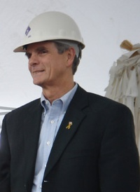 Depicted person: Chuck Reed – US politician, mayor of San Jose